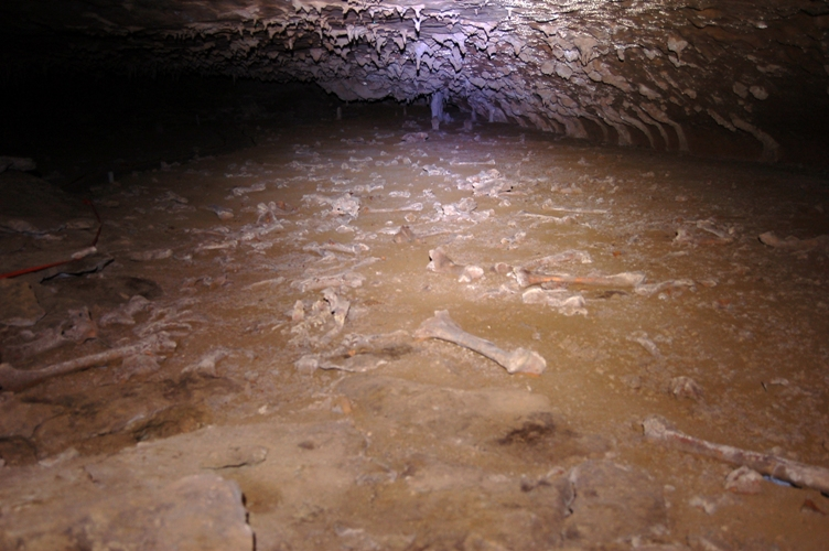 Moa bones scattered on the floor of 'Moa Cave', part of the Honeycomb Hill Cave System